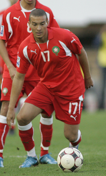 Moroccan football player Nabil Baha during match against Cameroon